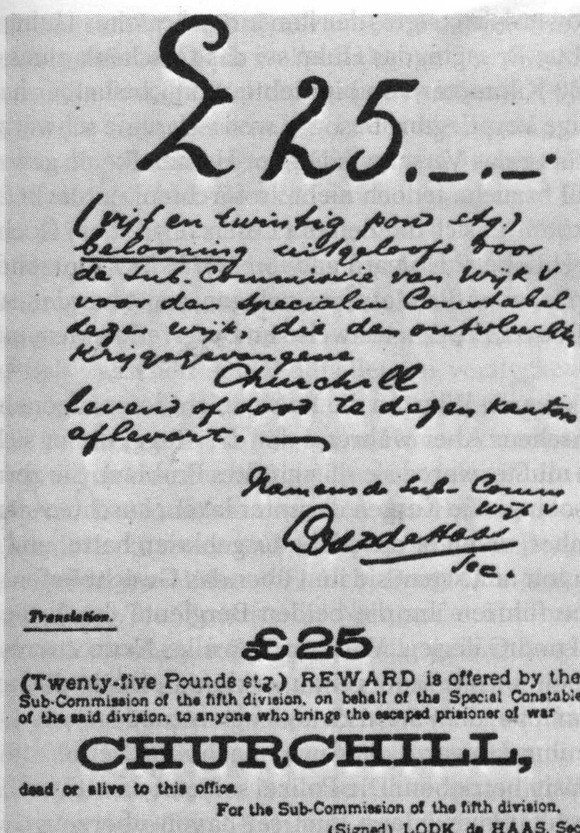 South African Wanted Poster placing a bounty on fugitive prisoner of war Winston Churchill in 1899.